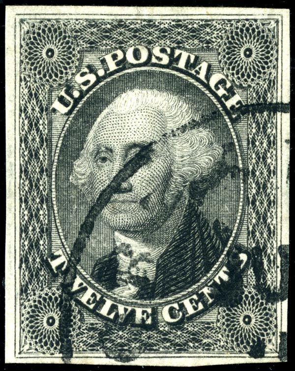 United States 12-cent postage stamp of 1851